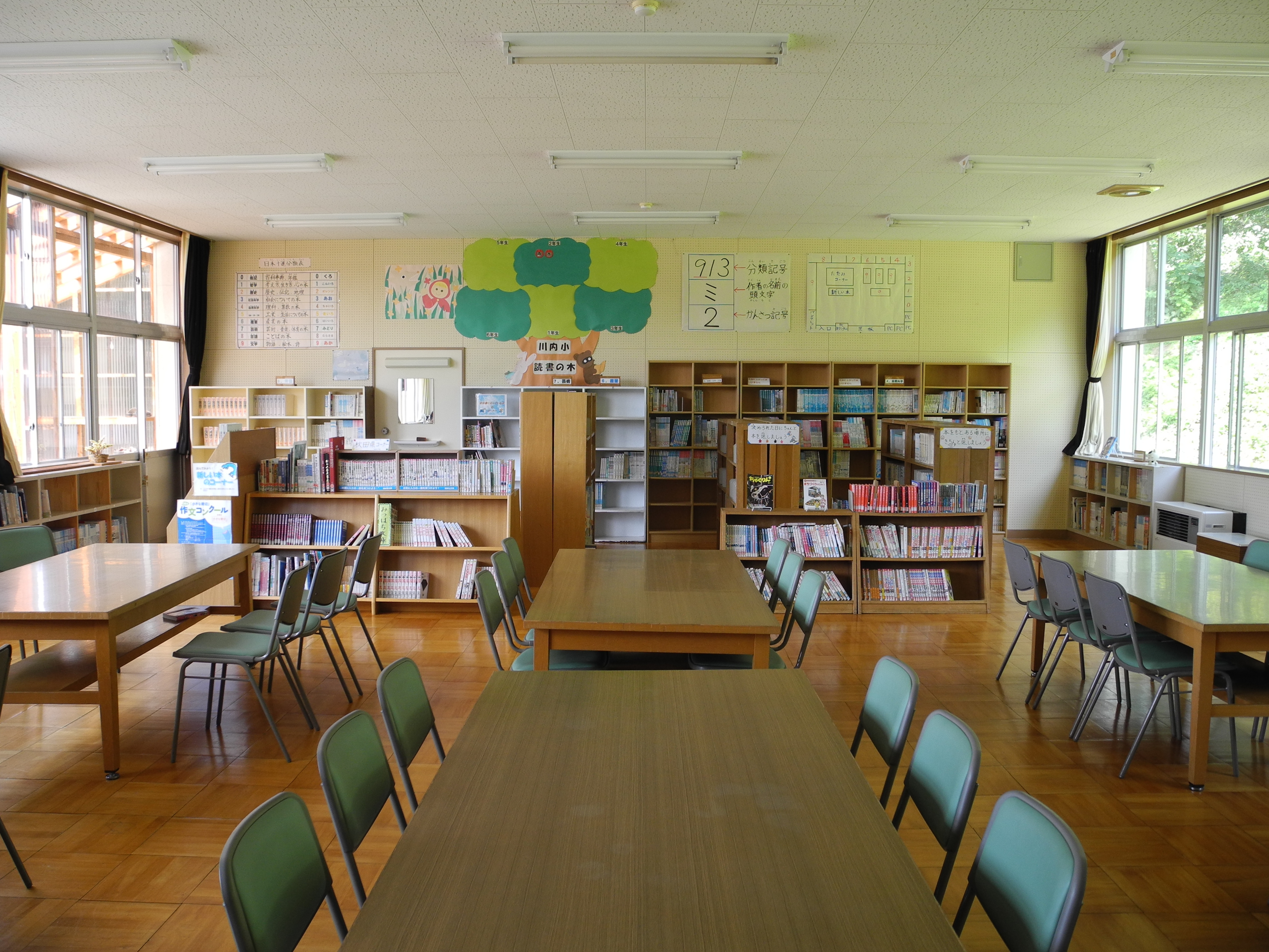 The school library. Kawauchi Elementary School. Fushimi, Chokai, Yurihonjo, Akita, Japan.